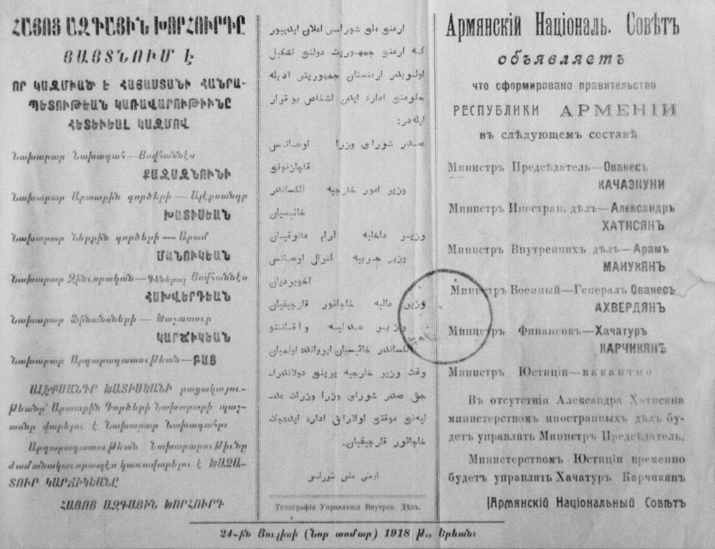 List of ministers of Hovhannes Qajaznouni cabinet